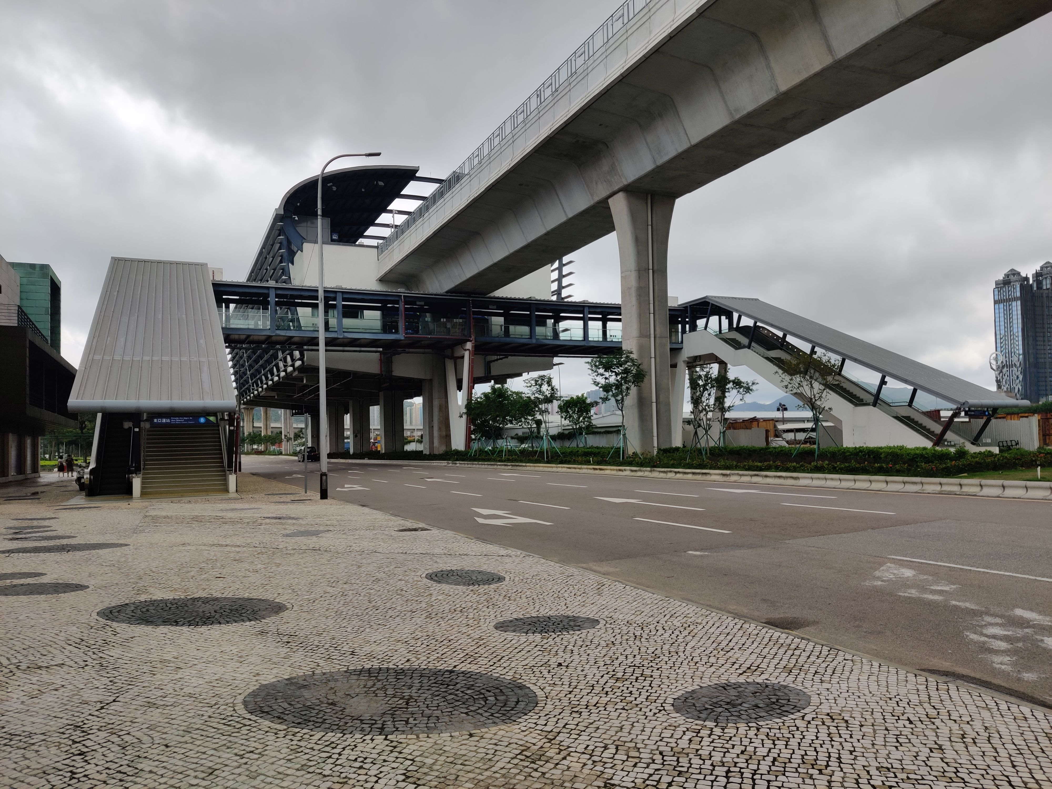 East Asian Games Station, Macau LRT